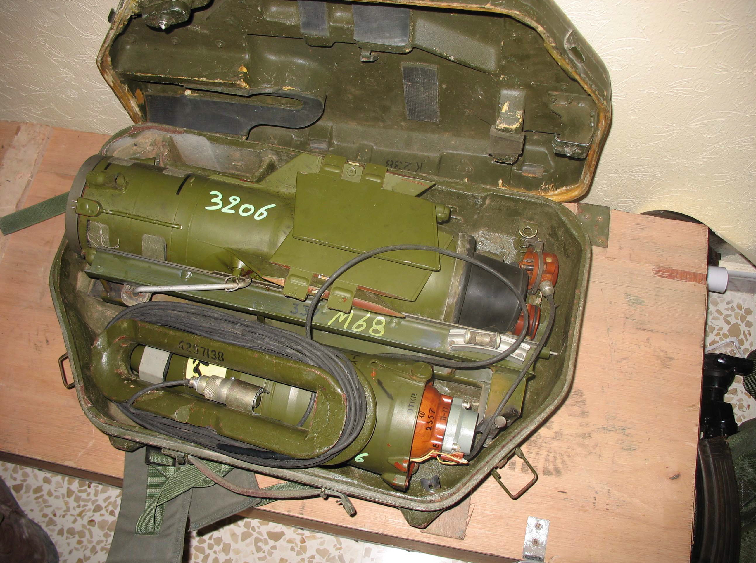 July 26, 2006 During IDF operation in Bint Jbeil in southern Lebanon, Israeli forces killed over 15 militants from the Hezbollah terror organization. During the operation, IDF soldiers disposed of enemy weaponry including: 5 anti-tank missiles, 30 grenades, 41 magazines, 10 bullet proof vests, and 3 motorcycles that the militants had been using. Israeli forces also located 20 assault rifles, 15 guns, 4 hunting rifles, a land mine detector, and detonation equipment.